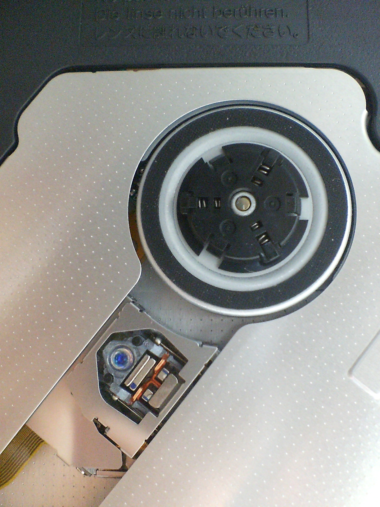 This picture shows a DVD drive MATSHITA DVD-RAM UJ-840S by Panasonic. This one is built-in Sony VAIO VGC-V174B. It can do with 10 types of optical disc; DVD-ROM, DVD-R, DVD-RW, DVD-RAM, DVD+R, DVD+RW, DVD+R DL(Double Layer), CD-ROM, CD-R, and CD-RW. パナソニック製DVDドライブ、MATSHITA DVD-RAM UJ-840S。 ソニー製PC、VAIO VGC-V174Bに内蔵されているもの。 DVDスーパーマルチドライブであり、10種類のメディア（DVD-ROM、DVD-R、DVD-RW、DVD-RAM、DVD+R、DVD+RW、DVD+R DL(Double Layer)、CD-ROM、CD-R、CD-RW）を扱うことができる。